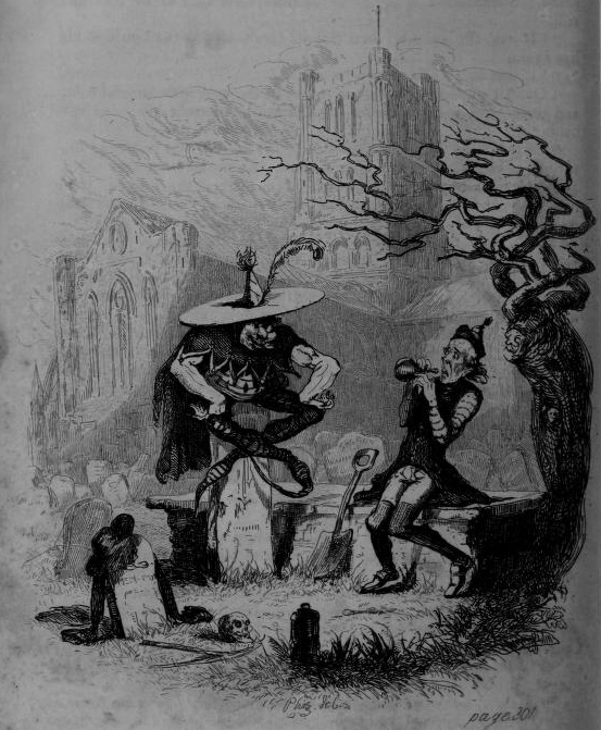 Hablot Knight Browne - The Pickwick Papers, Gabriel and the goblin